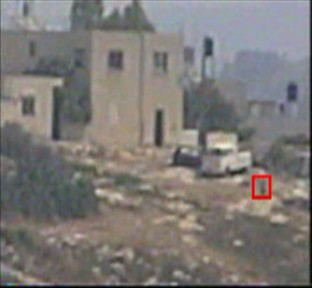 Computer vision, greeting of Protrack company.